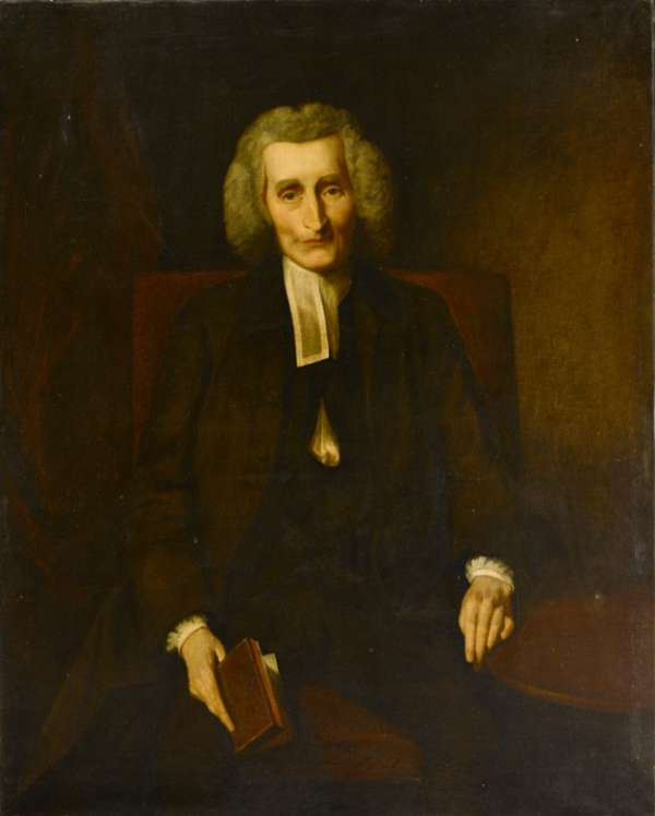 Portrait of Micaiah Towgood (1700–1792), English Dissenting minister in Exeter.